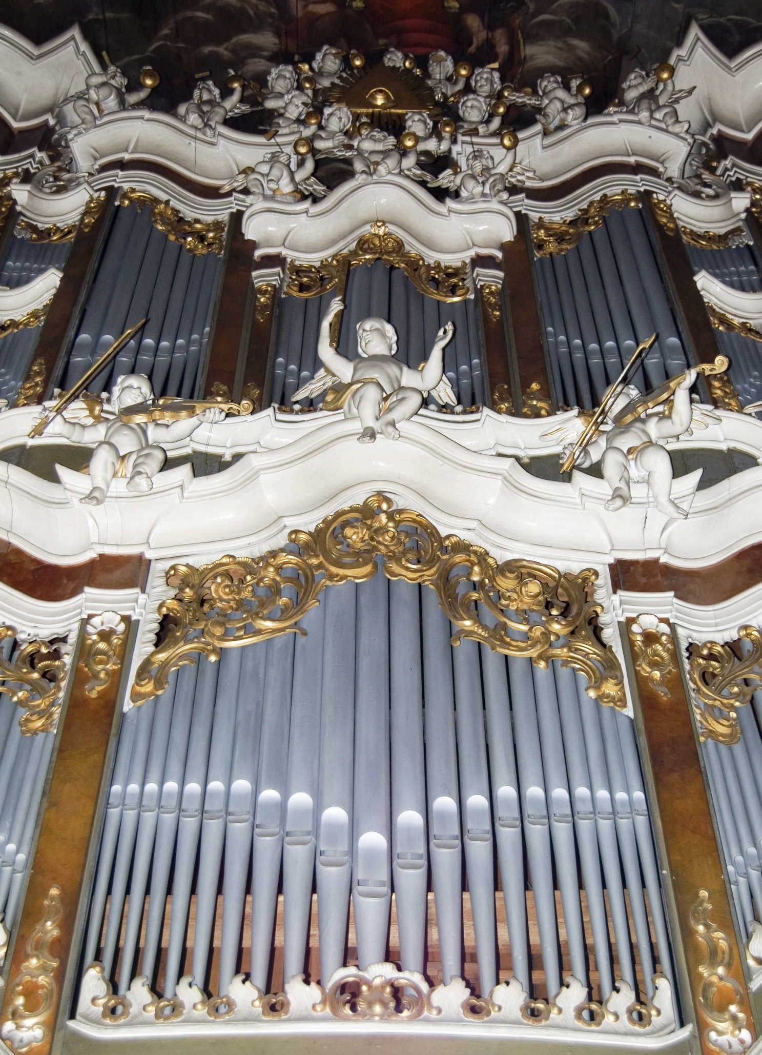 Big organs in the Peace church in Schweidnitz